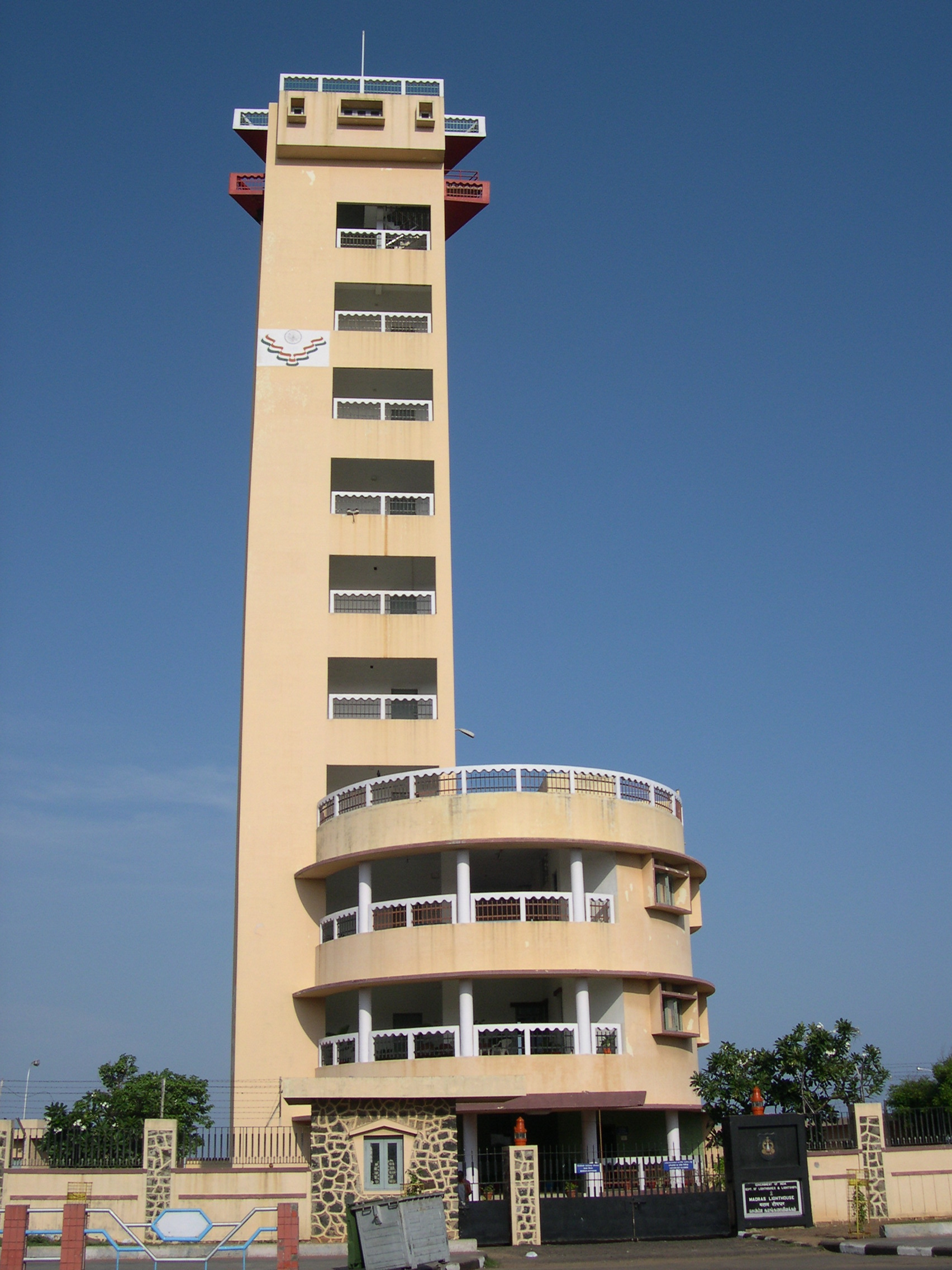 To me the present Light House lacks the Majesty of the Old Light Houses in the Madras High Court Compound